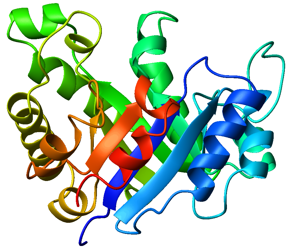 Ribbon diagram of a TIM barrel (PDB accession code 8TIM). Made with MOLMOL.